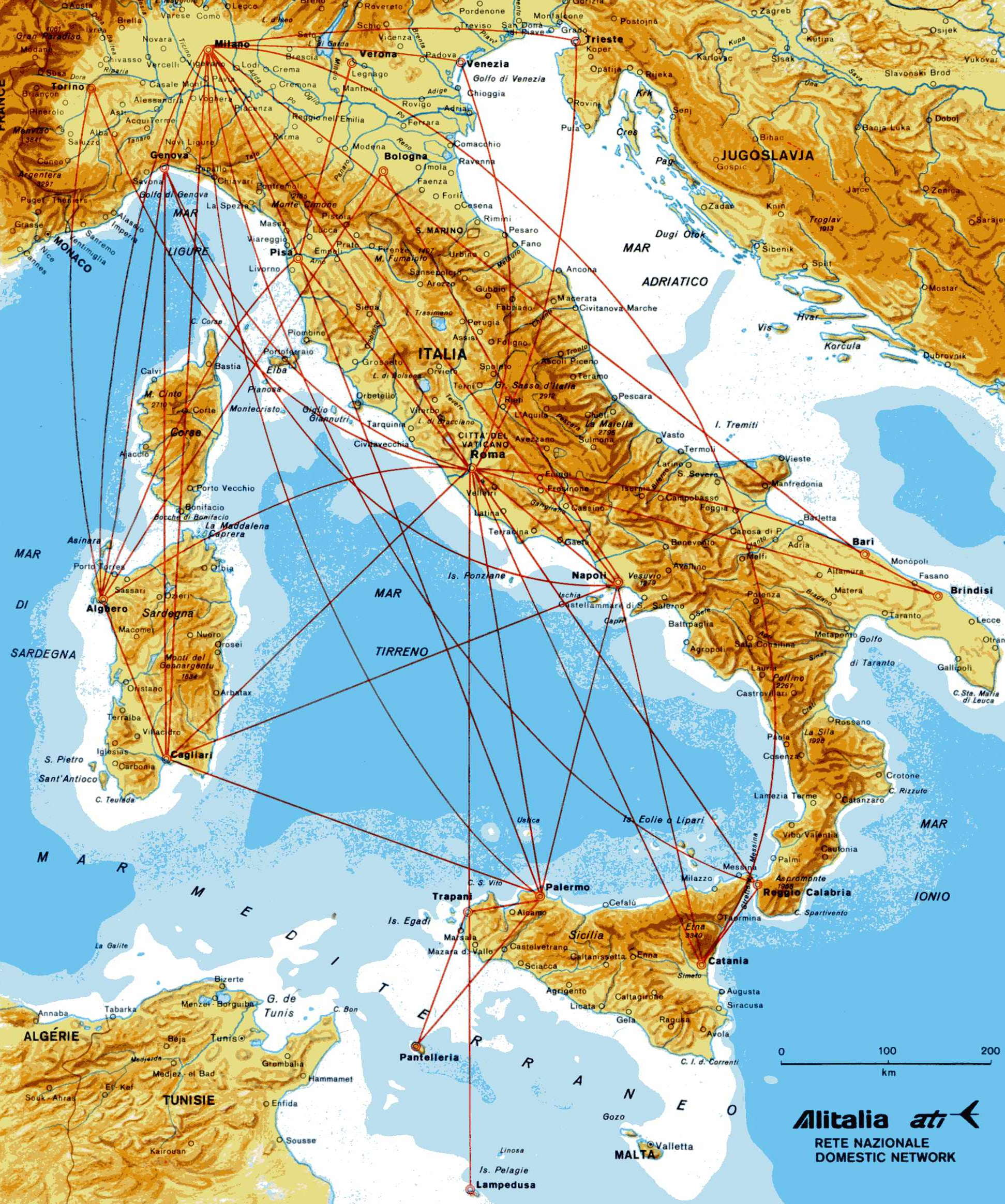 Italy, Alitalia and Aero Trasporti Italiani route maps in 1978.